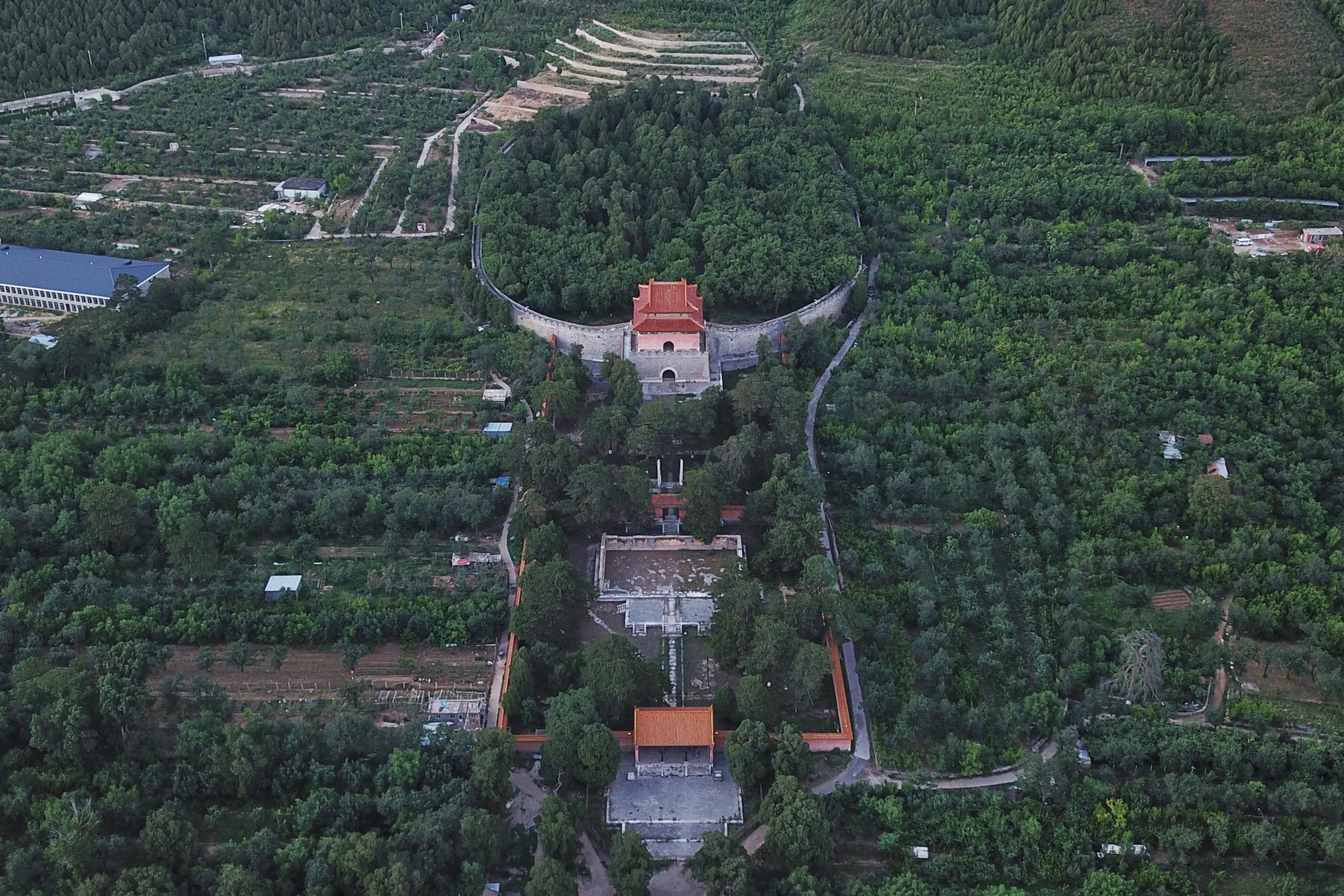 The Maoling mausoleum where the Chenghua emperor was buried.